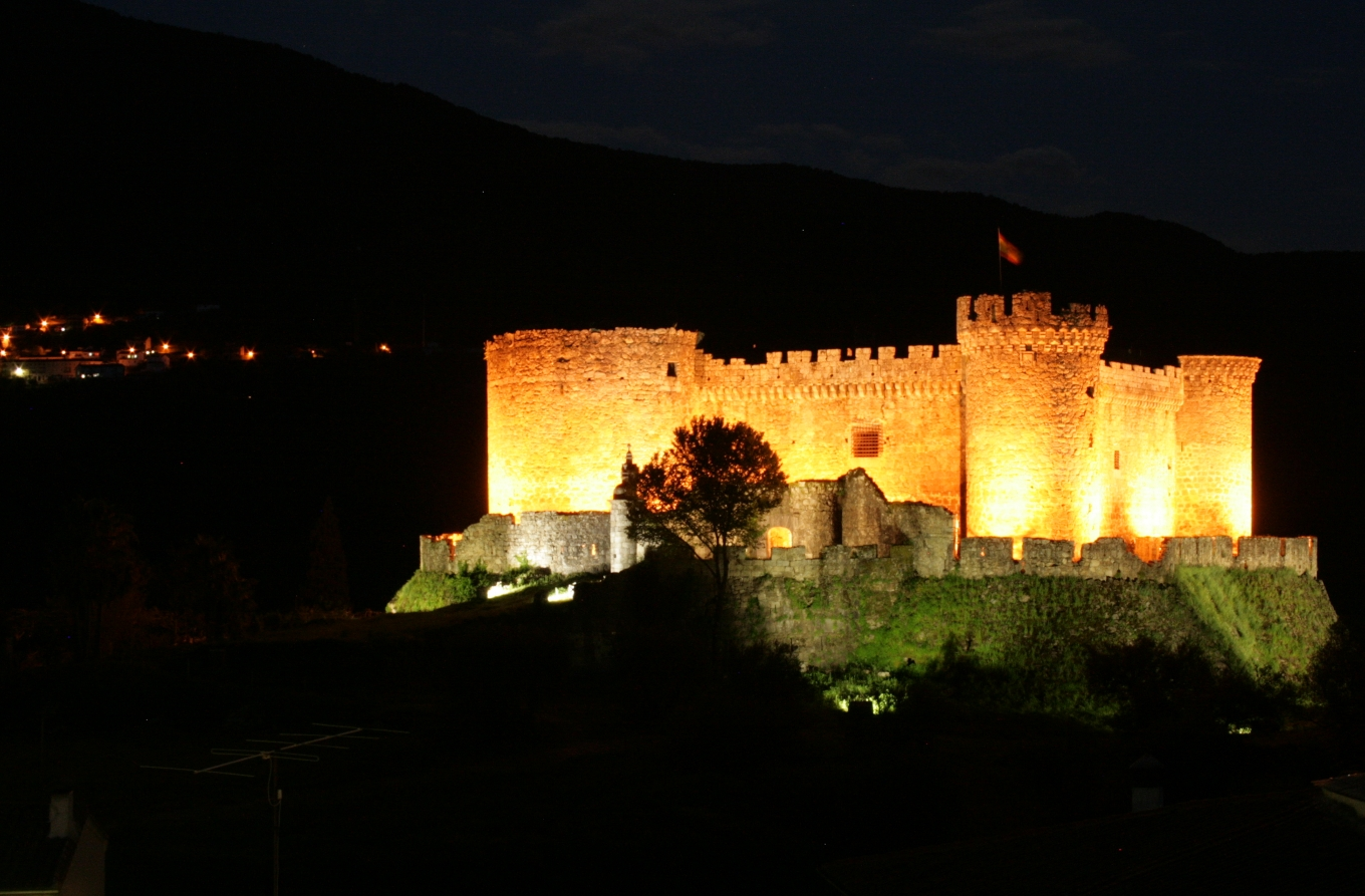 The Middle Age fortress of Mombeltrán in the province of Ávila, under the autonomous region Castilla y Léon, Spain.